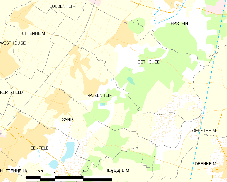 Map of French municipality